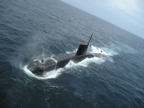 A shishumar class submarine of the Indian navy